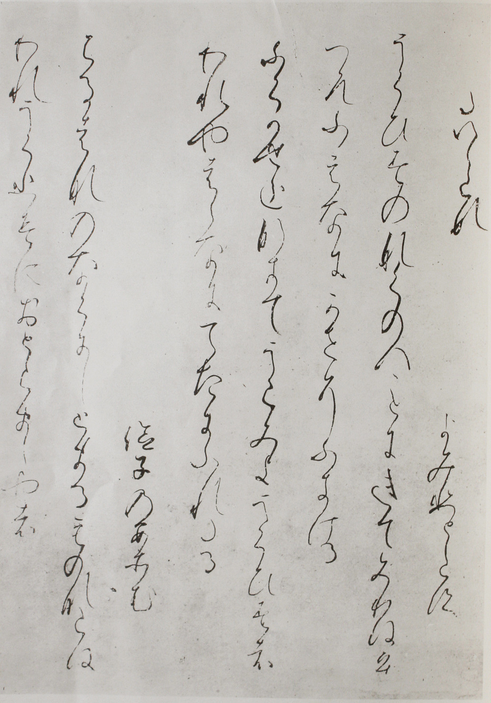 A fragment from Kokin Waka Shu (An Imperial Poetry Anthology) known as "Koyagire", A part of 2nd Scroll. 2nd group. early 11th century, Japan